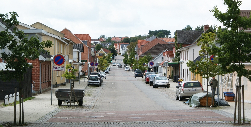 Jernbanegade,a main street in Støvring, Rebild kommune, Denmark